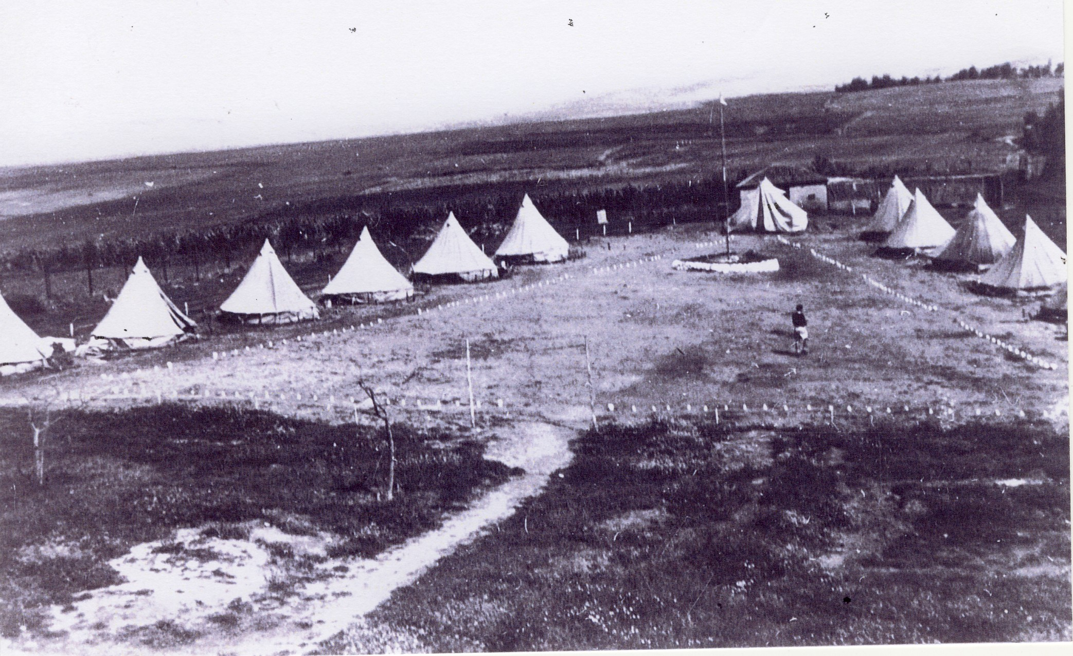 Ramat Hkovesh, 1943, Israel Defense Forces